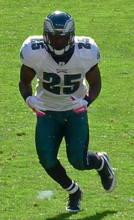 Philadelphia Eagles running back LeSean McCoy running in a game against the Washington Redskins on October 16, 2011.